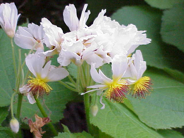 Species: Sparmannia africana Family: Tiliaceae Image No. 3